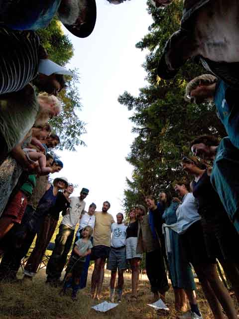 Participants in Diana Leafe Christian's "Heart of a Healthy Community" seminar circle during an afternoon session at O.U.R. Ecovillage - Please attribute photo usage to: Jan Steinman O.U.R. Ecovillage P.O. Box 530 Shawnigan Lake, BC Canada V0R 2W0 Image:Community_Circle_at_OUR_Ecovillage.jpg